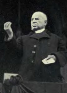 Father Janos Hock, president of the National Council, opening the revolutionary national assembly after the dissolution of the House of Commons and the Lords, Hungary late 1918